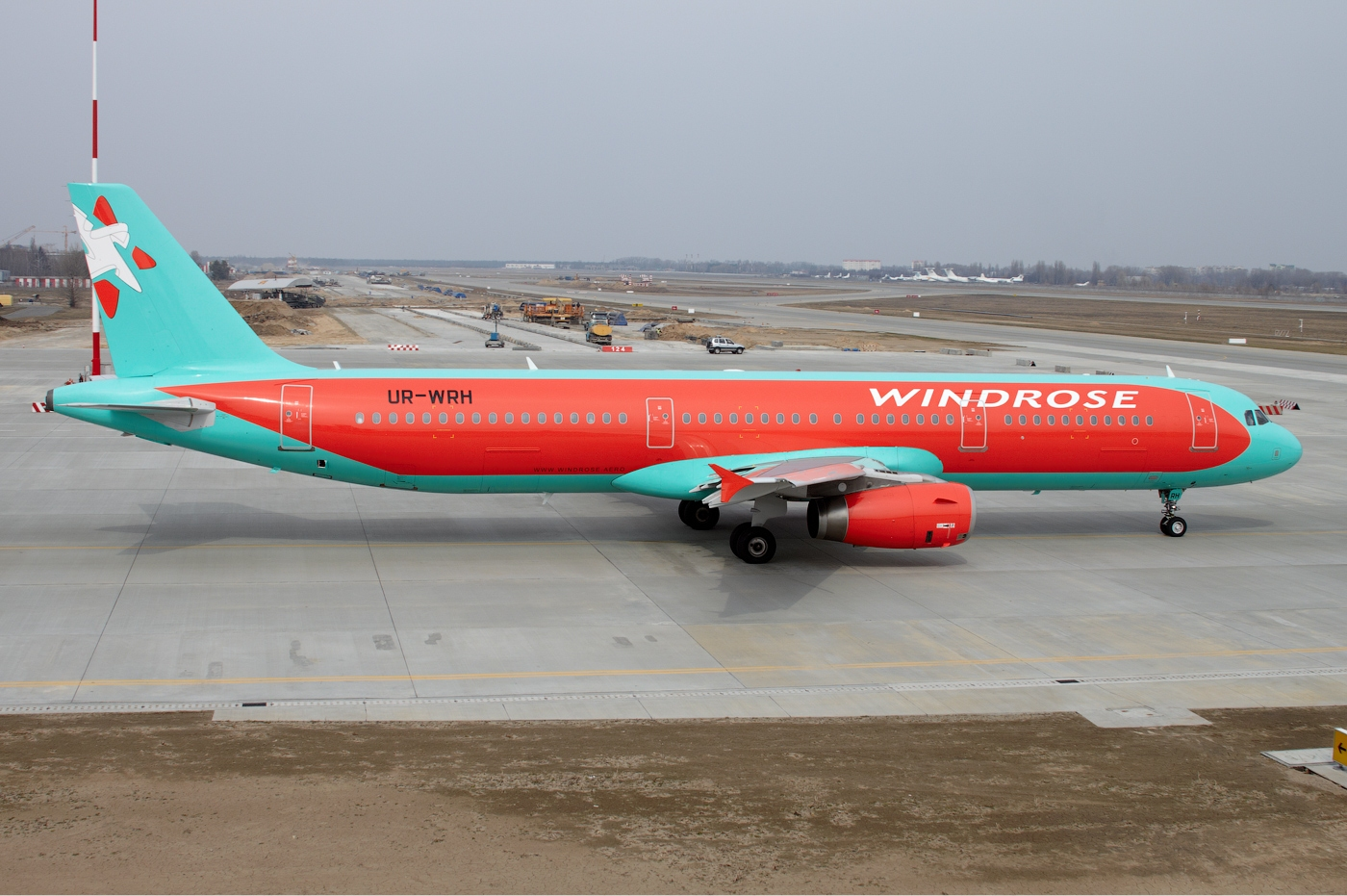 WindRose Airlines Airbus A321 at Borispol Airport